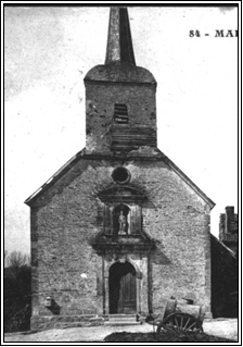 Facade of Martincourt-sur-Meuse's church before 1920. The war memorial is not yet visible.